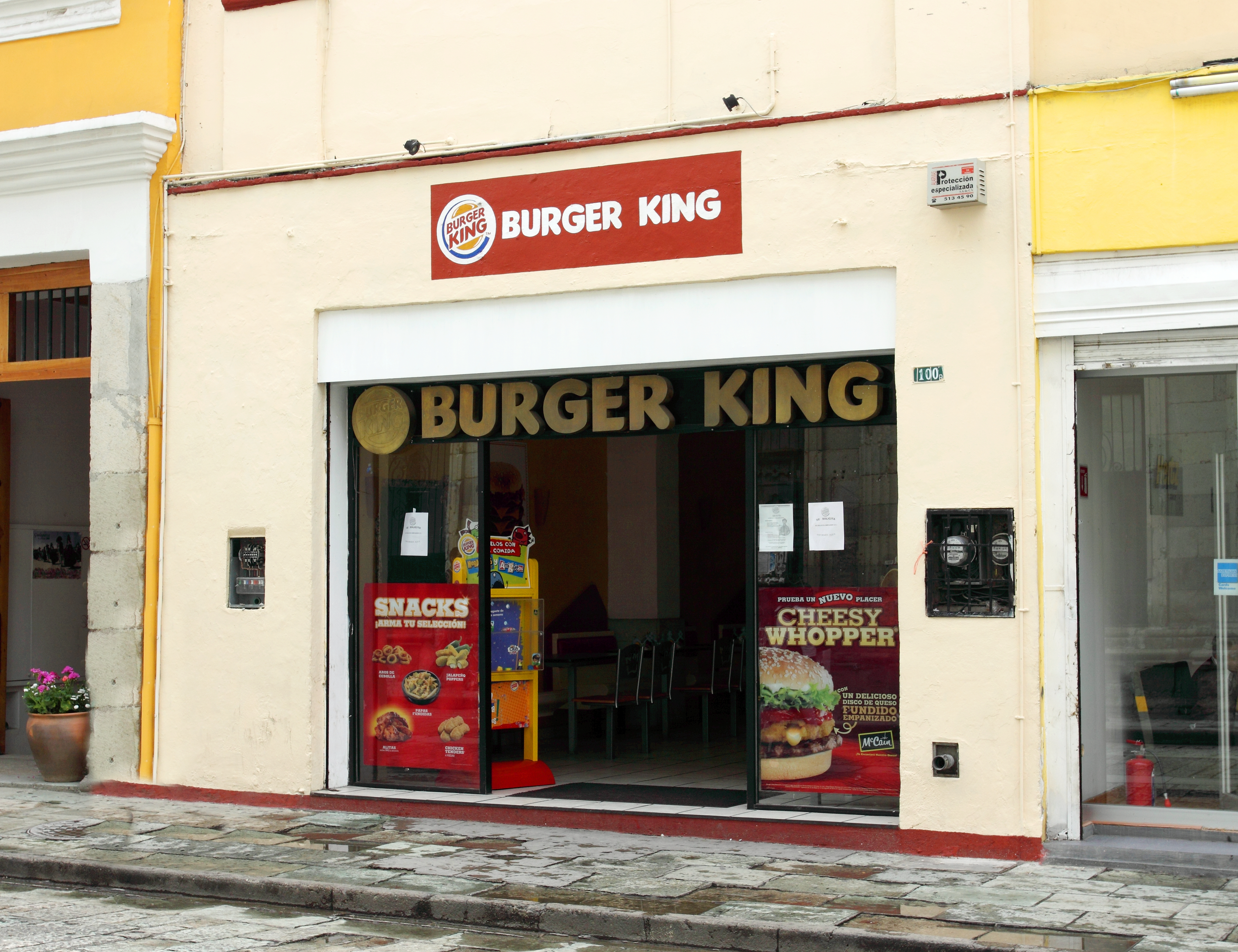 Burger King store located near the Zocalo in Oaxaca de Juarez, Oaxaca, Mexico. This photo may incorporate a commercial logo or signage, but is free under Mexican Laws governing freedom of panorama - See COM:CRT/Mexico#Freedom of panorama.